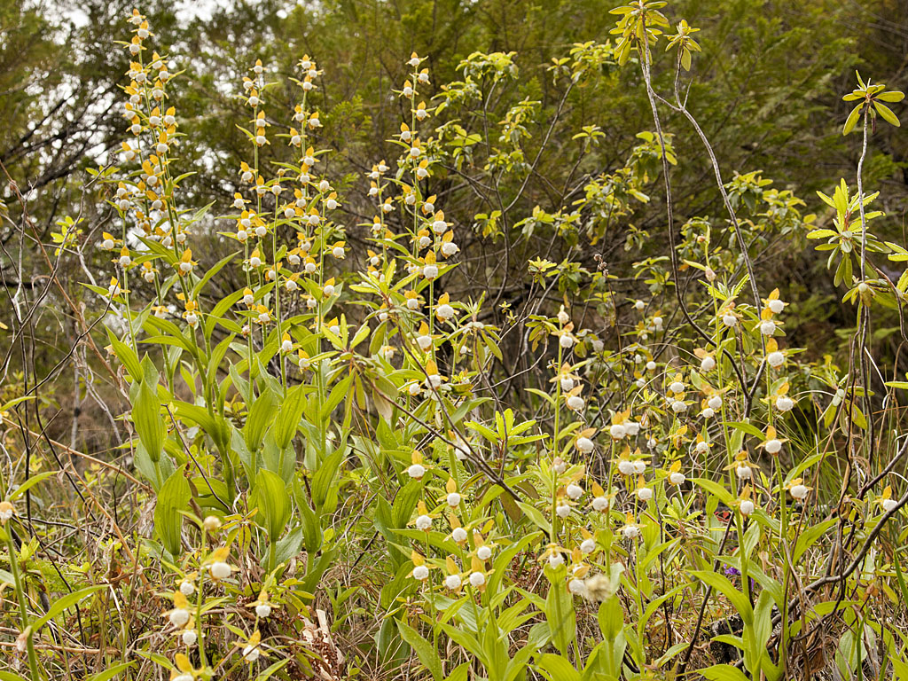 Cypripedium californicum — California lady's slipper; native orchid. Large stand blooming ( June 3) in Del Norte County, northeastern California.